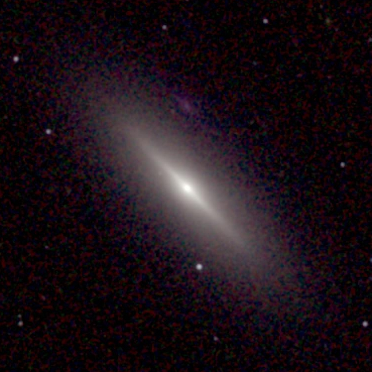 Galaxy NGC 3115 (Spindle galaxy